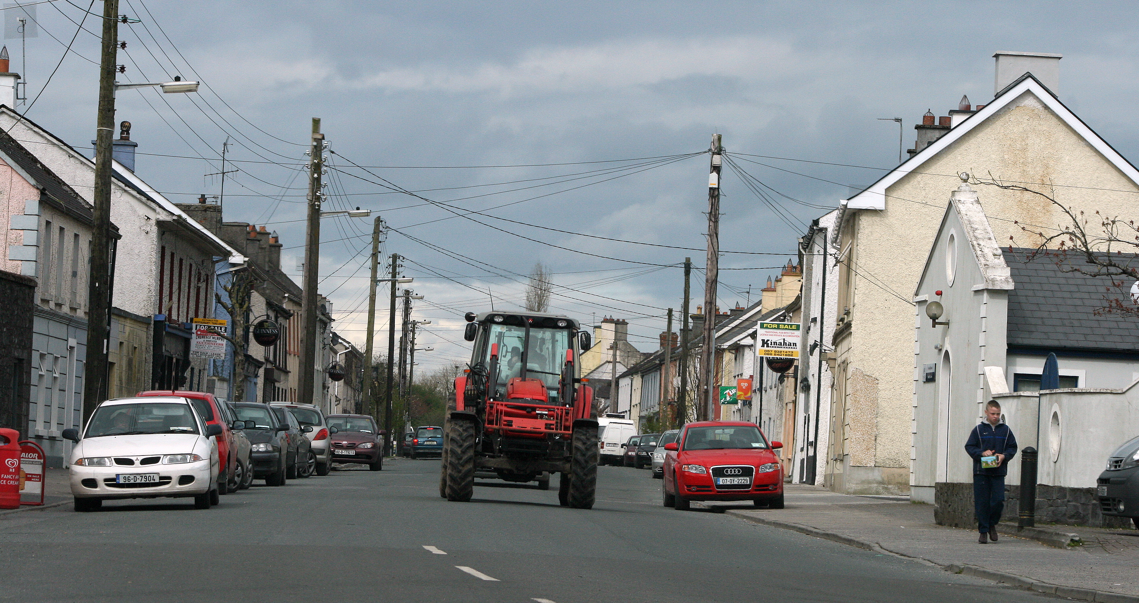 Daingean Main Street with wires, County Offaly, Ireland